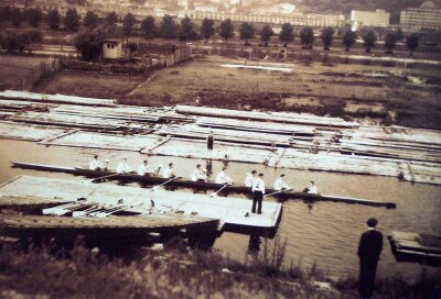 historieCVK